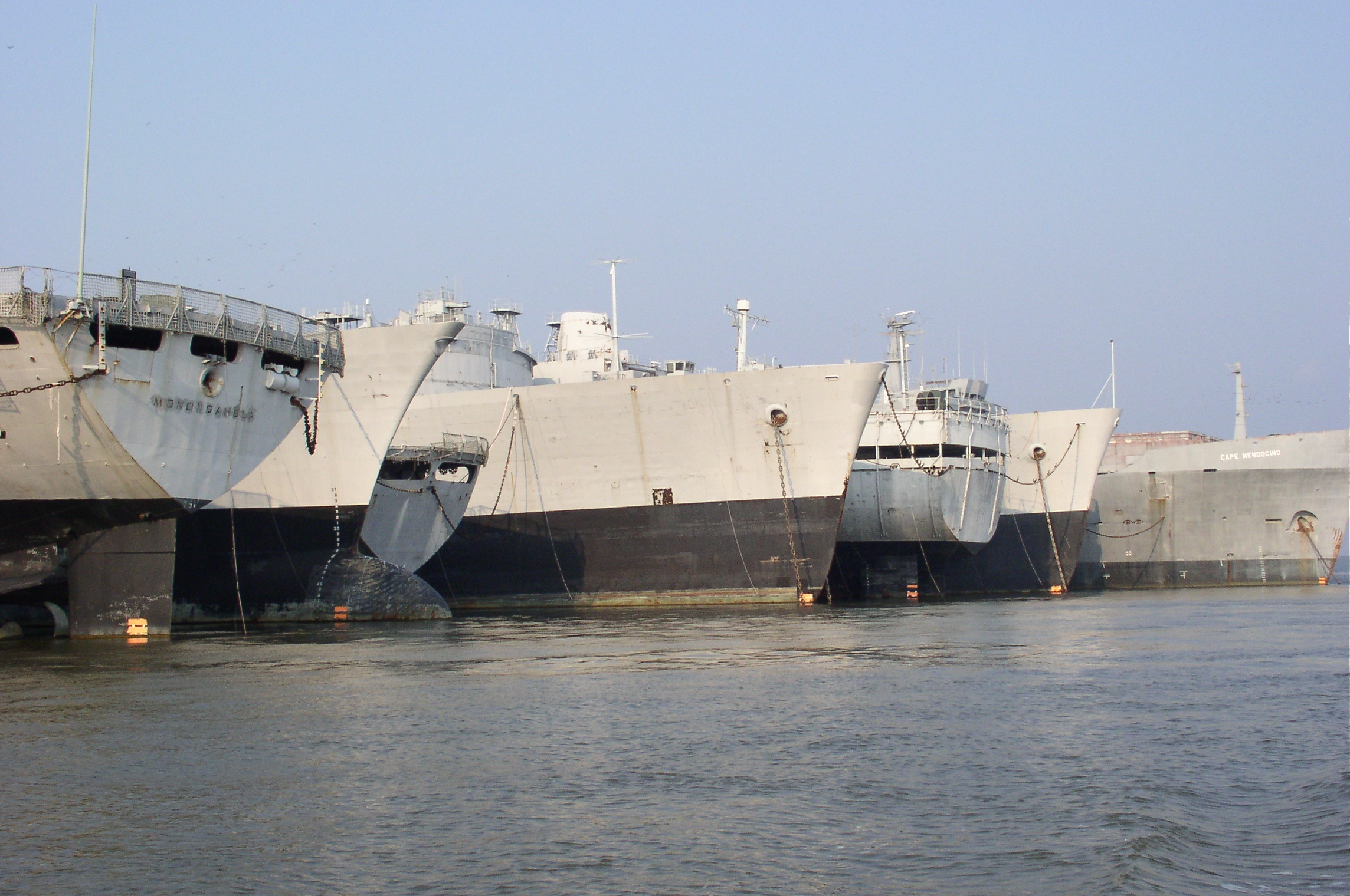 Photograph taken by Joel Zedd (Uruloki 00:45, 11 September 2006 (UTC)) in the James River of a row of ships in the Ghost Fleet. 10 September 2006.